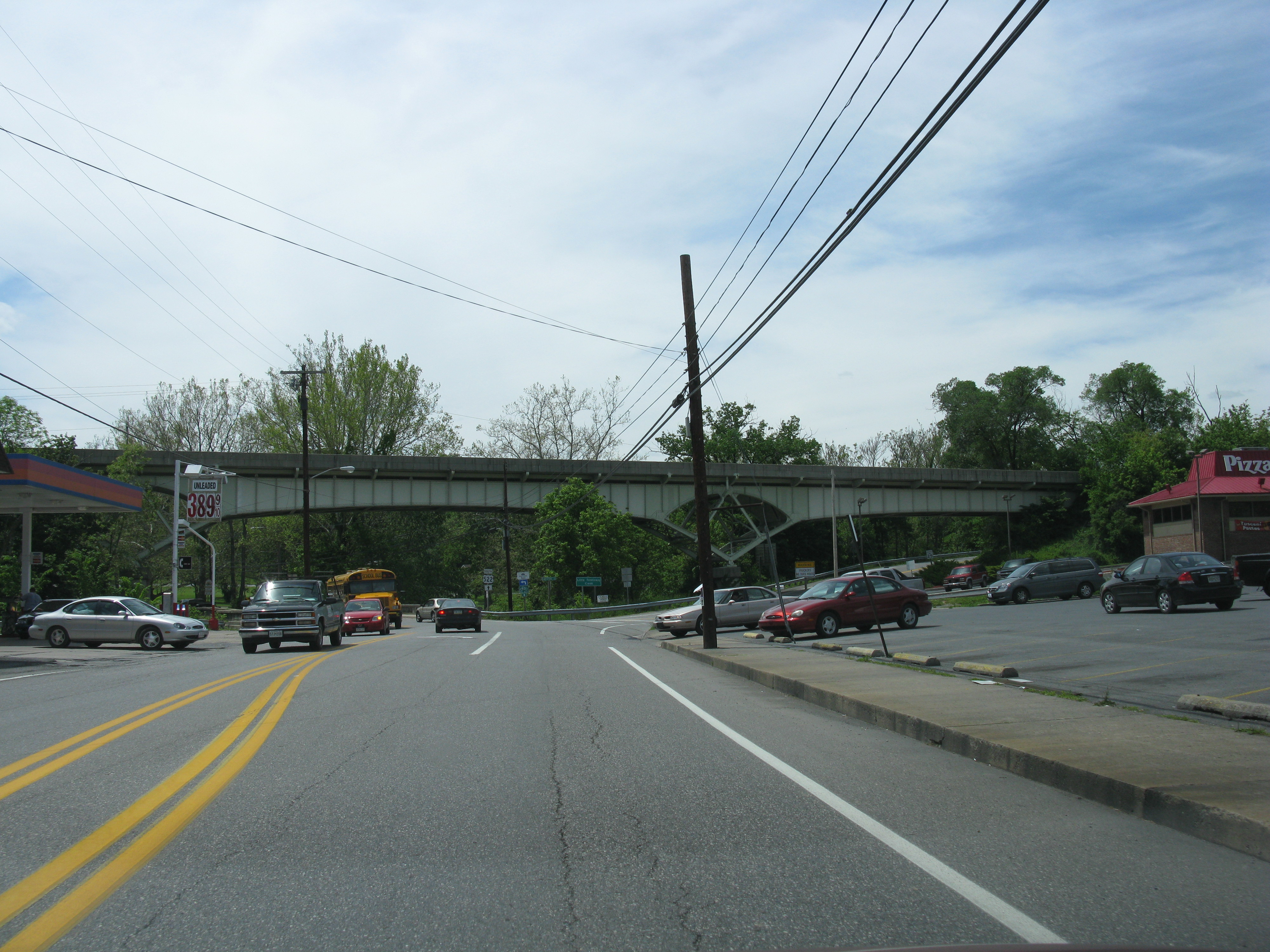 MD 144 at U.S. Route 522, Hancock, Maryland